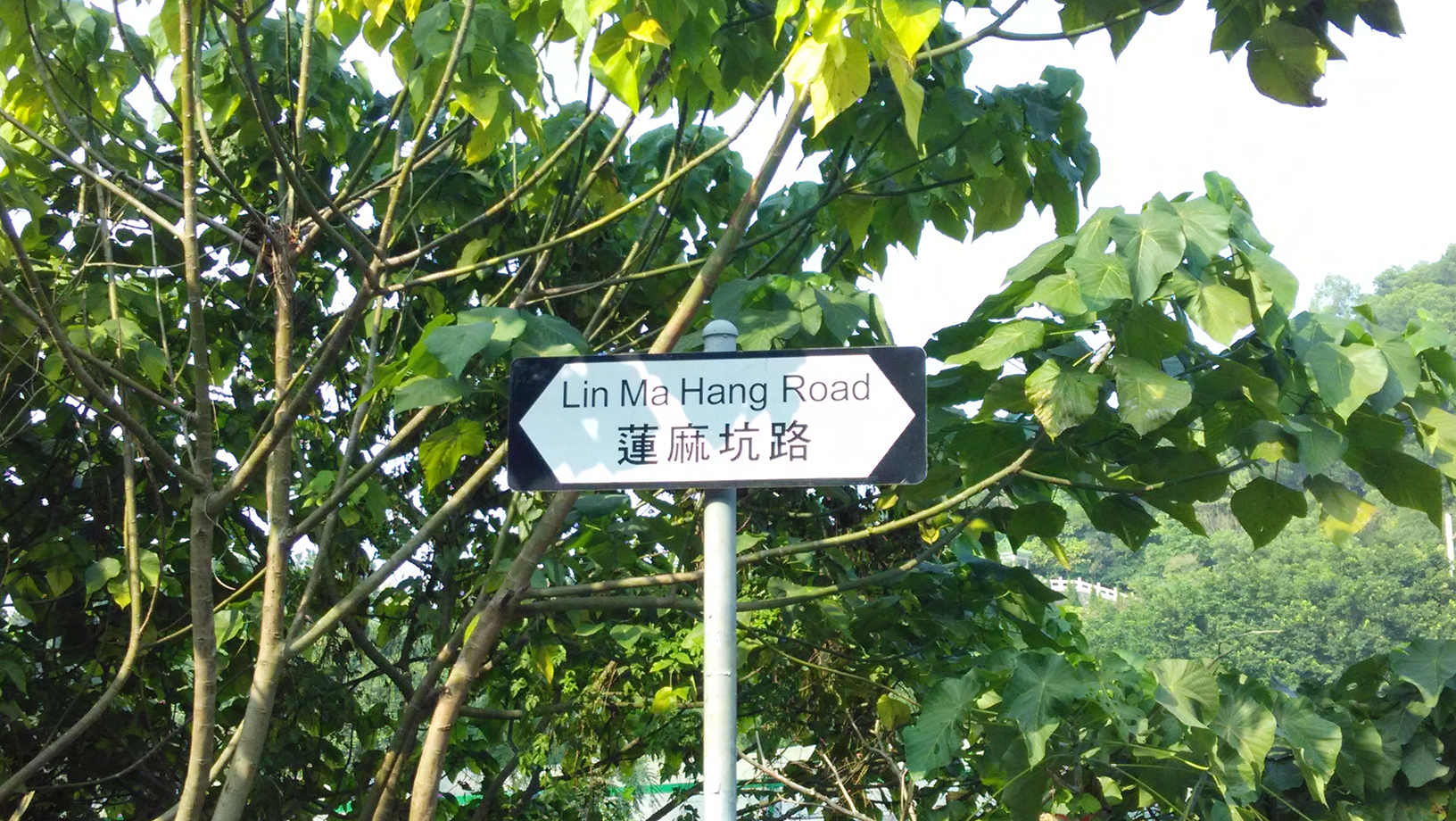 蓮麻坑道路牌